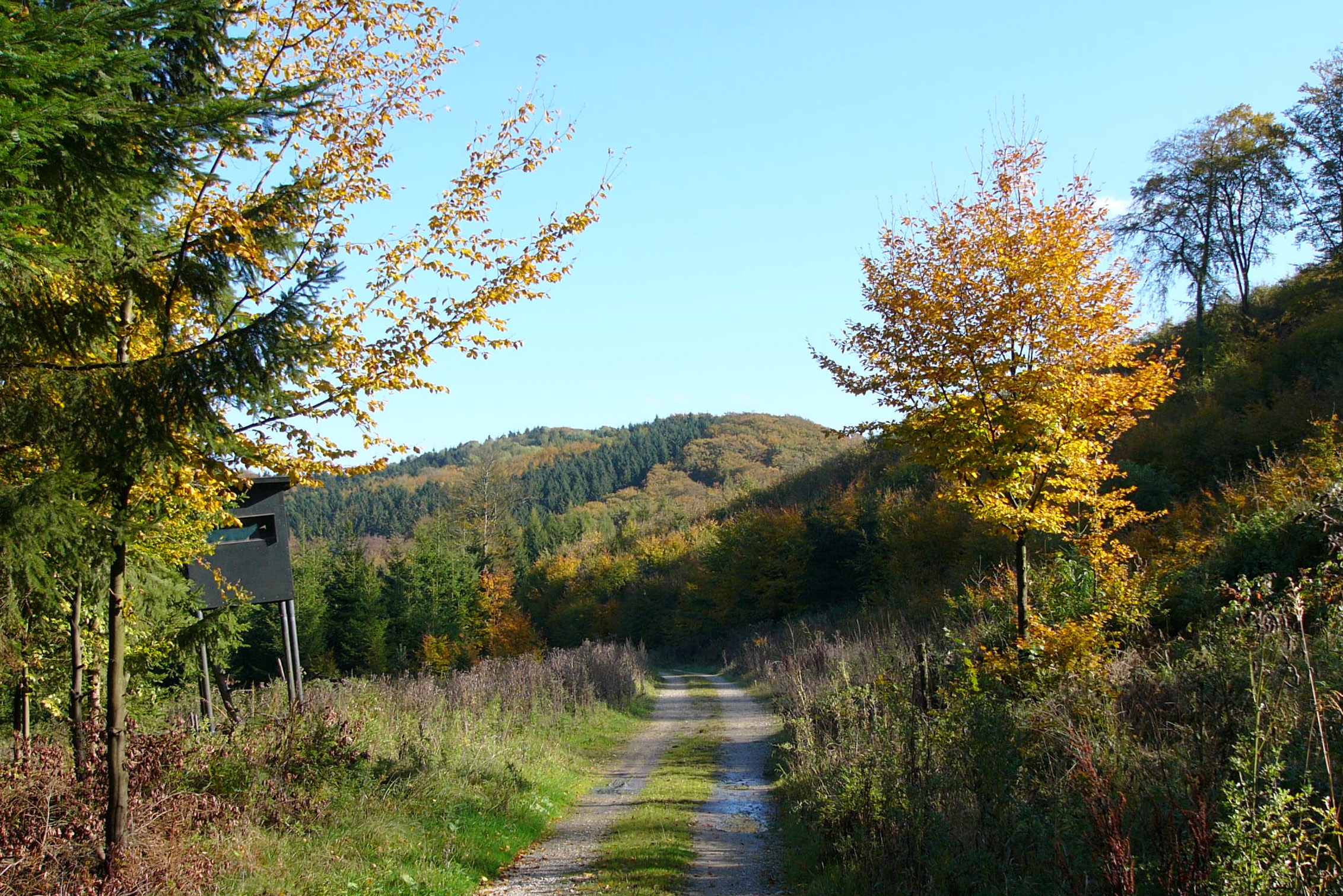 View in Teutoburg Forest, Germany